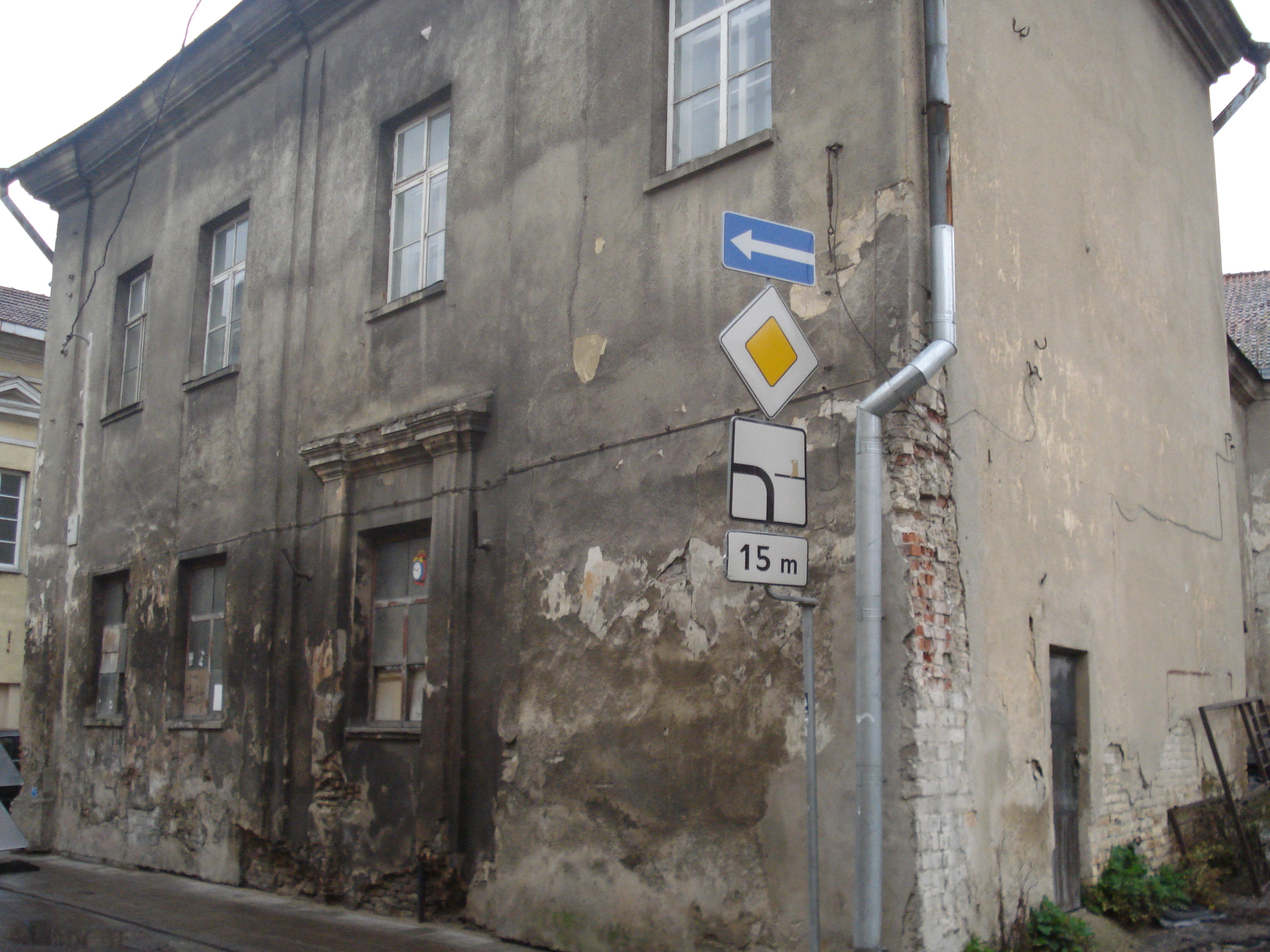 Former Cloister of the Augustinians in Vilnius (Savičiaus g. 13/2)